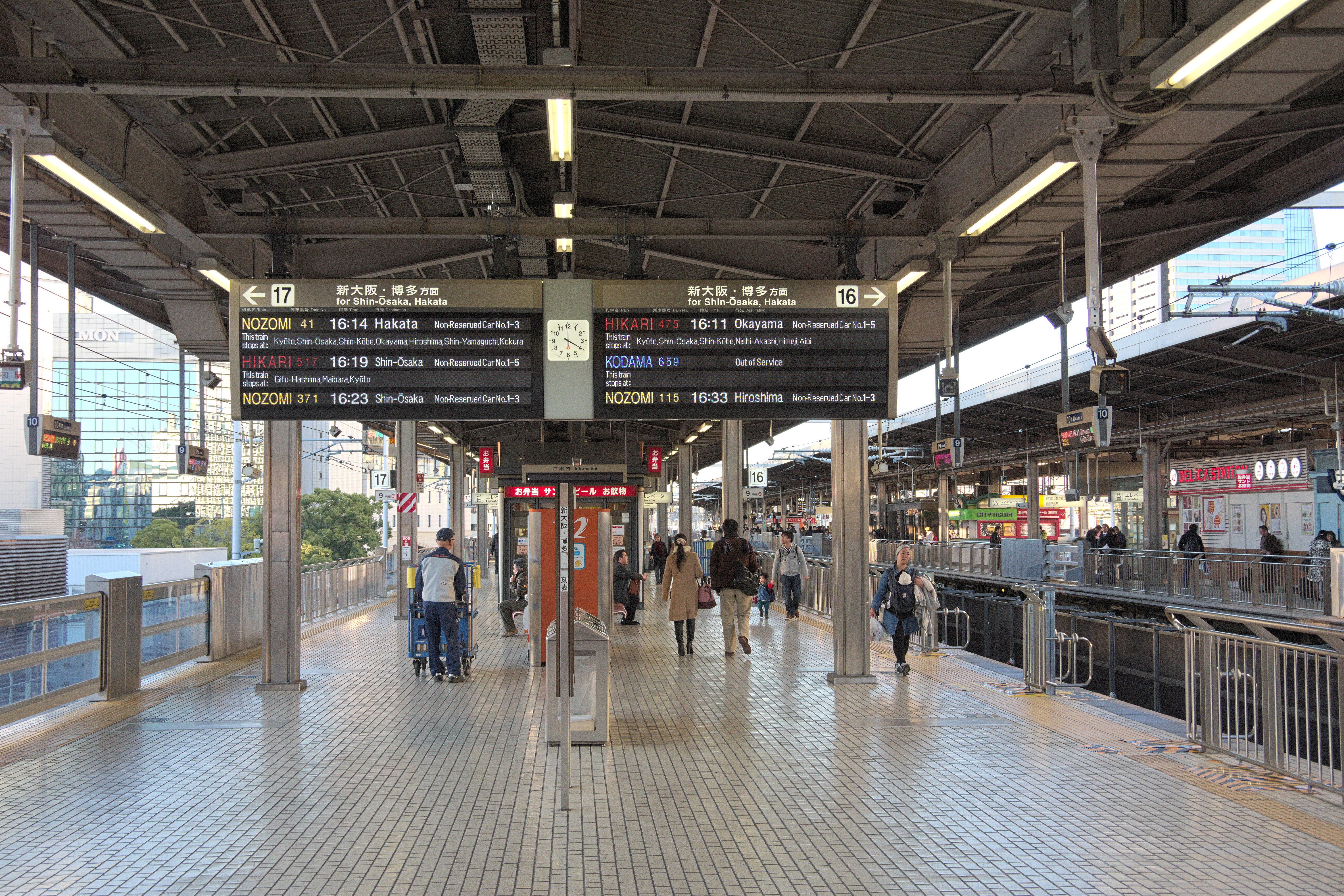 Nagoya, Station, platform for Shinkansen trains